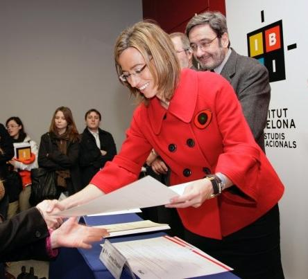 Spanish Minister of Defence Carme Chacón at a graduation ceremony of the Institut Barcelona d'Estudis Internacionals (IBEI)